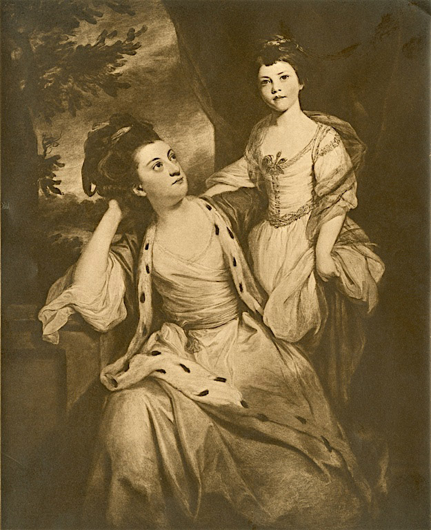 'Mrs. Boone and Her Daughter', by Joshua Reynolds (c. 1774), a painting possibly destroyed in the Friedrichshain flak tower fire in Berlin, at the end of the Second World War (May 1945). The painting belonged to the collections of the Kaiser-Friedrich-Museum, now the Bode-Museum of Berlin.